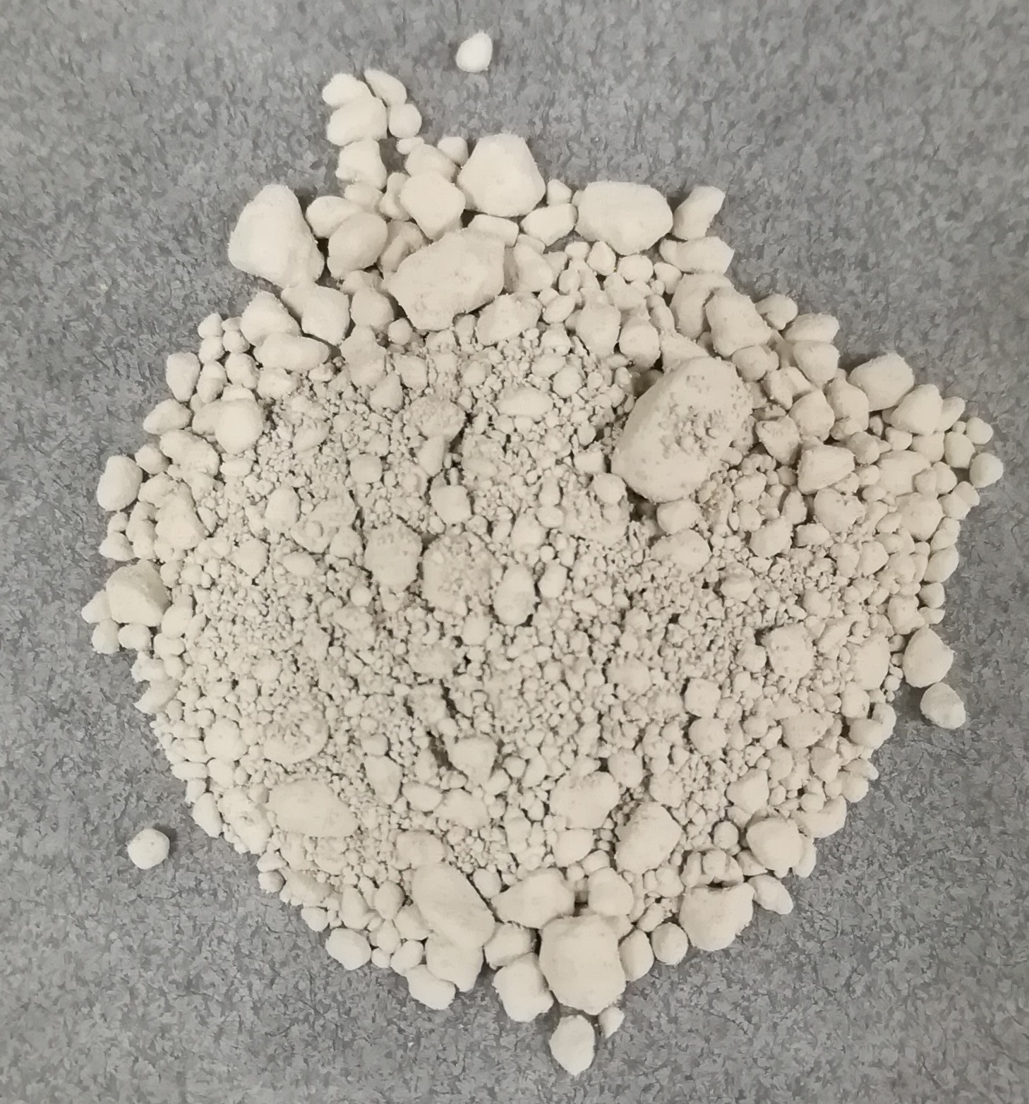 Copper(I) iodide with purity 99.5%